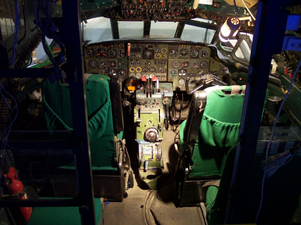 Sud Aviation Caravelle Cockpit